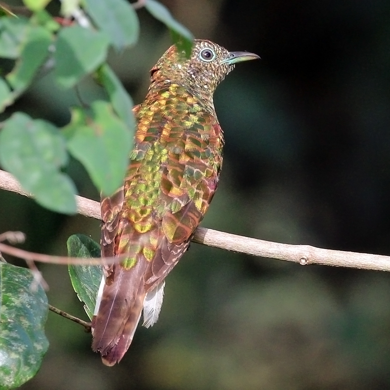 African emerald cuckoo (Chrysococcyx cupreus) female, Kakum National park, Ghana